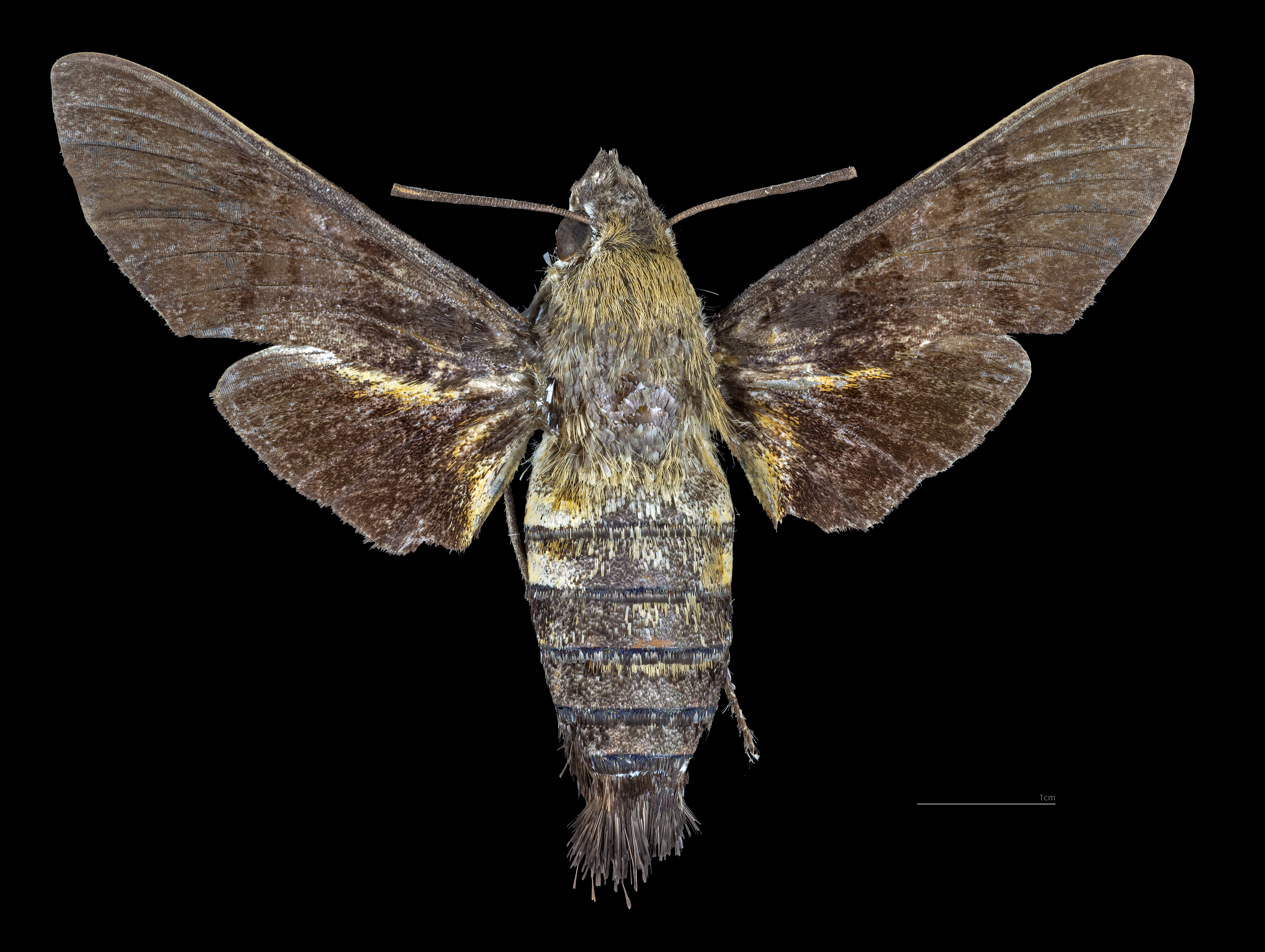 Macroglossum bombylans - Dorsal side Collection of the Mathematician Laurent Schwartz